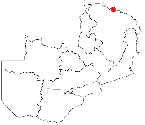 Mbala, Zambia Location Map.